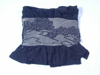 Men's heko obi made of silk, it has exotic shibori dyed pattern in both ends.